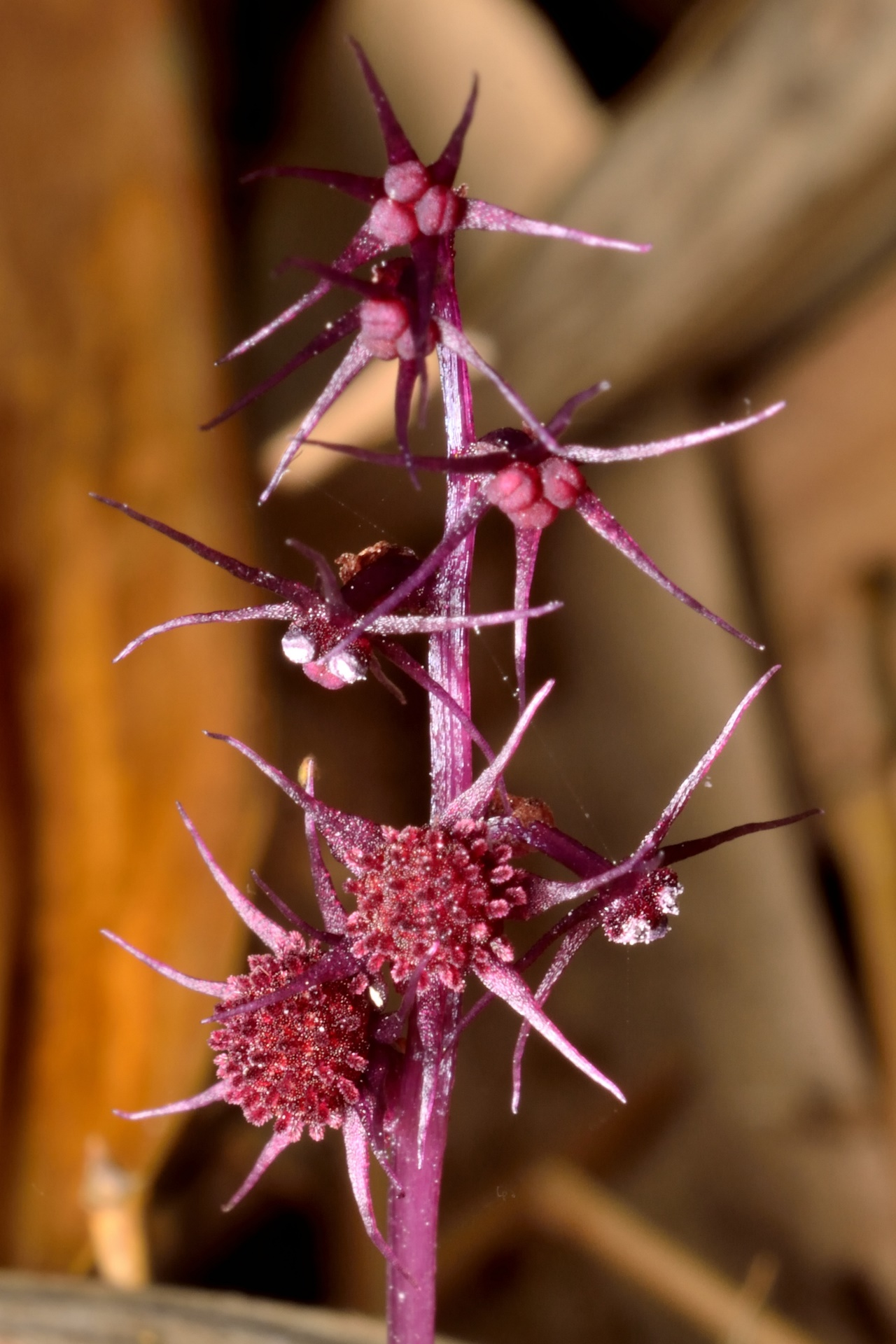 Sciaphila secundiflora Thwaites ex Benth., 1855 錫蘭霉草